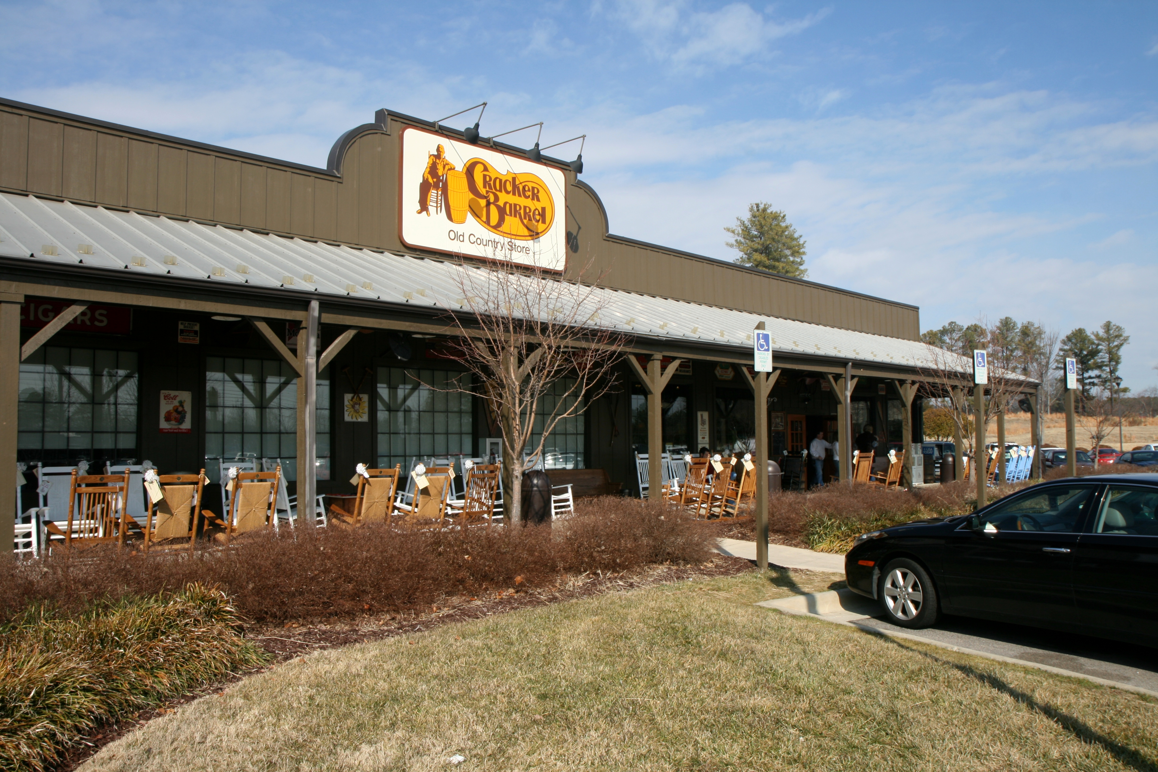 Cracker Barrel Old Country Store at 955 Airport Boulevard, near Raleigh-Durham International Airport, in Morrisville, North Carolina.